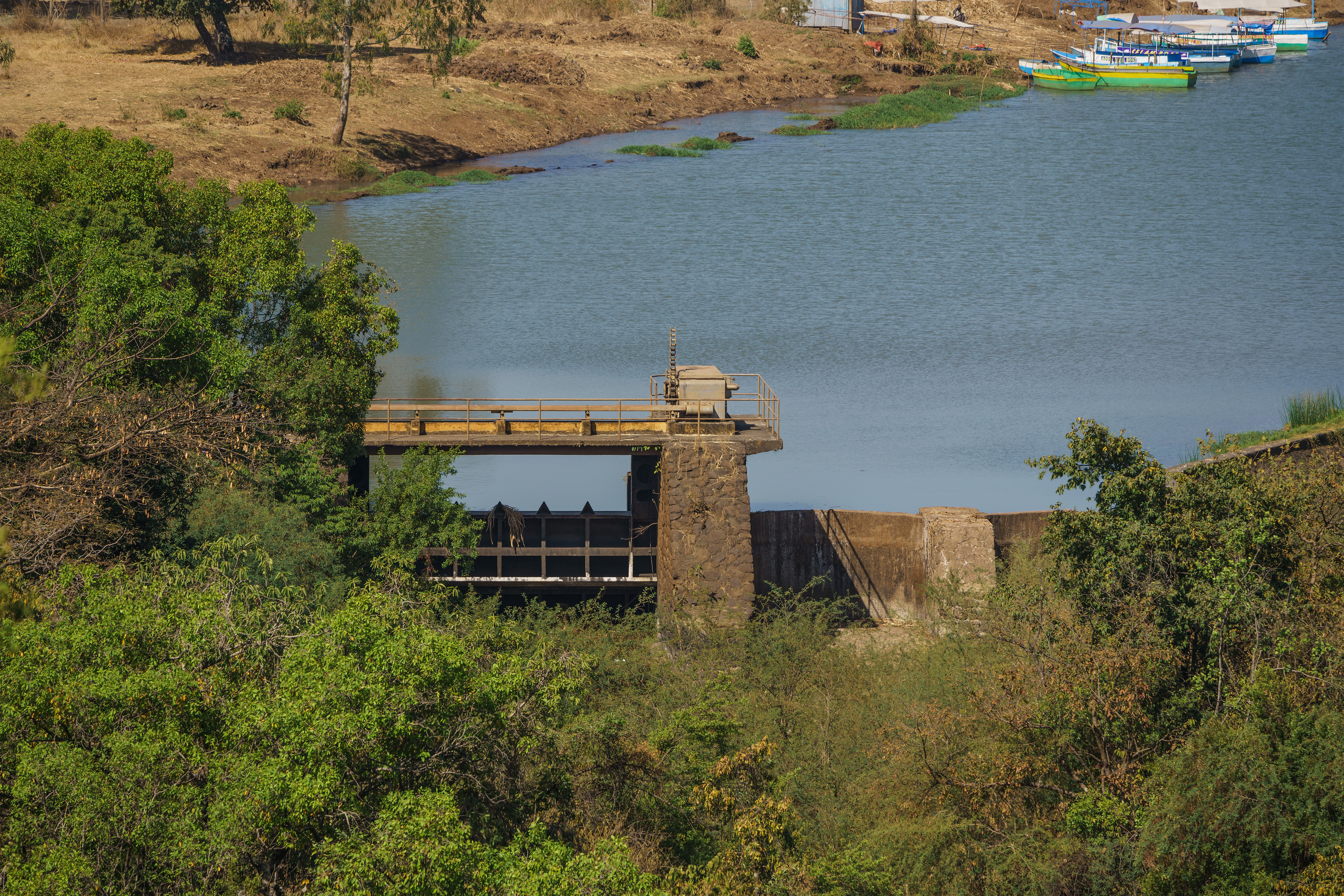 Blue Nile canal and dam at Tis Issat near Bahir Dar, Ethiopia